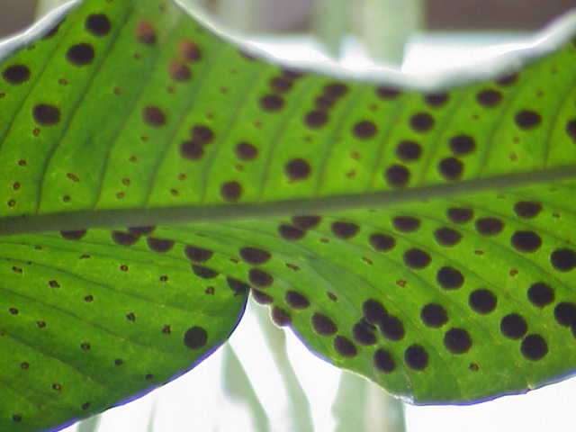 Species: Polypodium crassifolium Family: Polypodiaceae Image No. 1